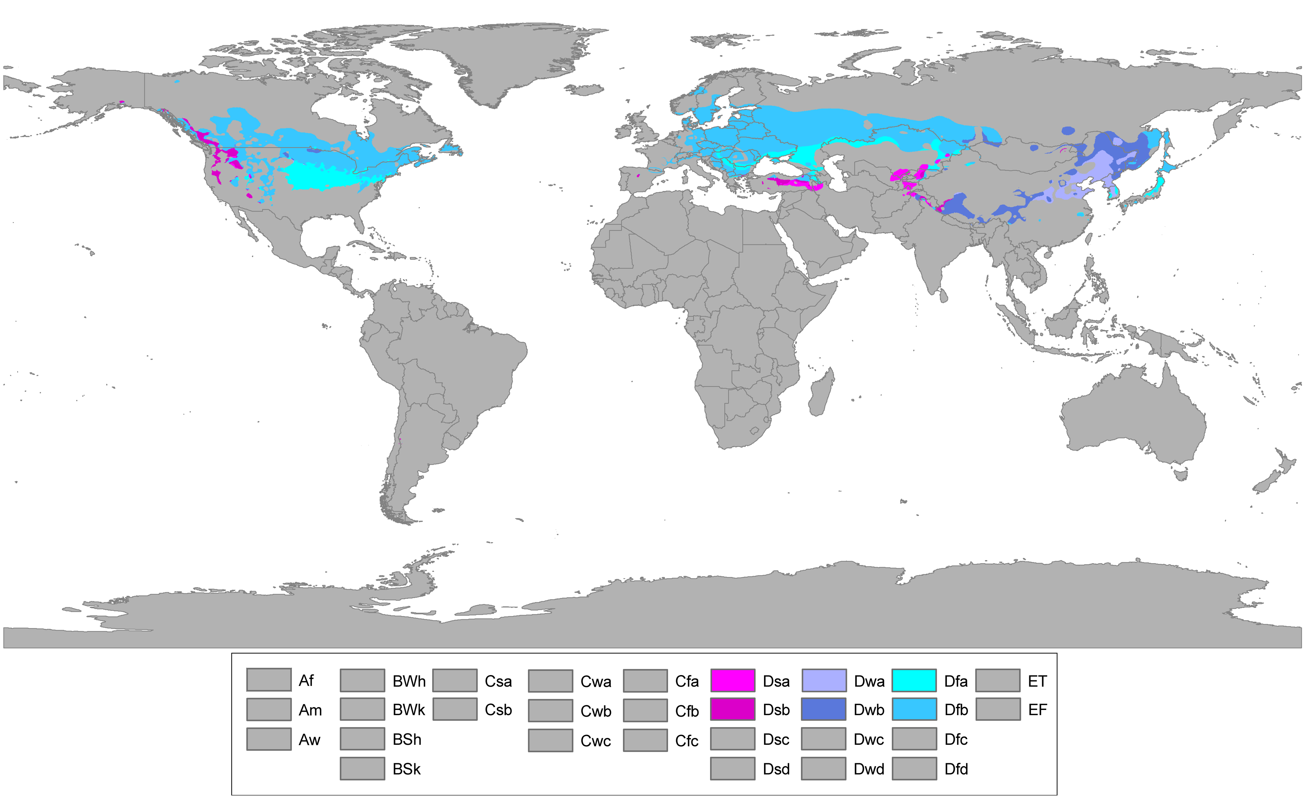 Updated world map of the Köppen-Geiger climate classification. Humid continental climates (Dfa, Dwa, Dsa, Dfb, Dwb, Dsb)